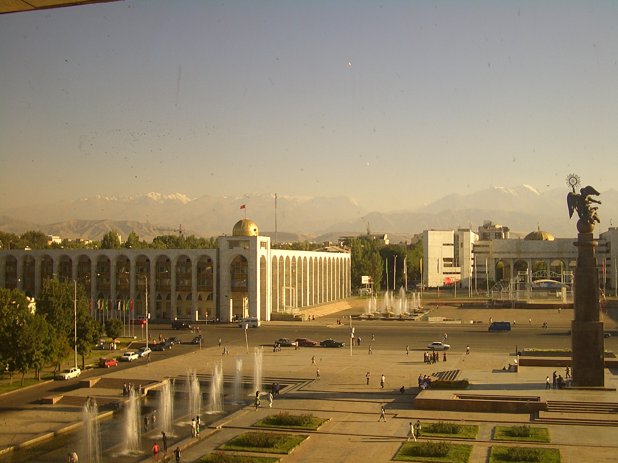 Bishkek's central Ala Too Square, with the Erkindik (Freedom) Monument. Seen from a window in the National Museum.